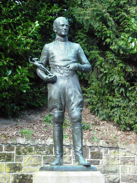 Jimmie Guthrie memorial. Close up of the bronze memorial statue Also see 1197902